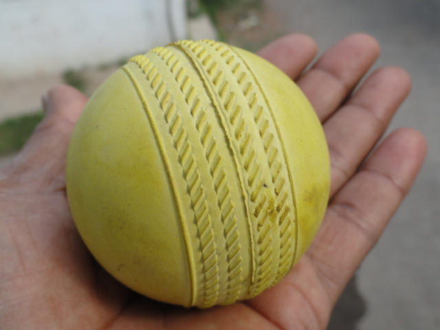 a ball